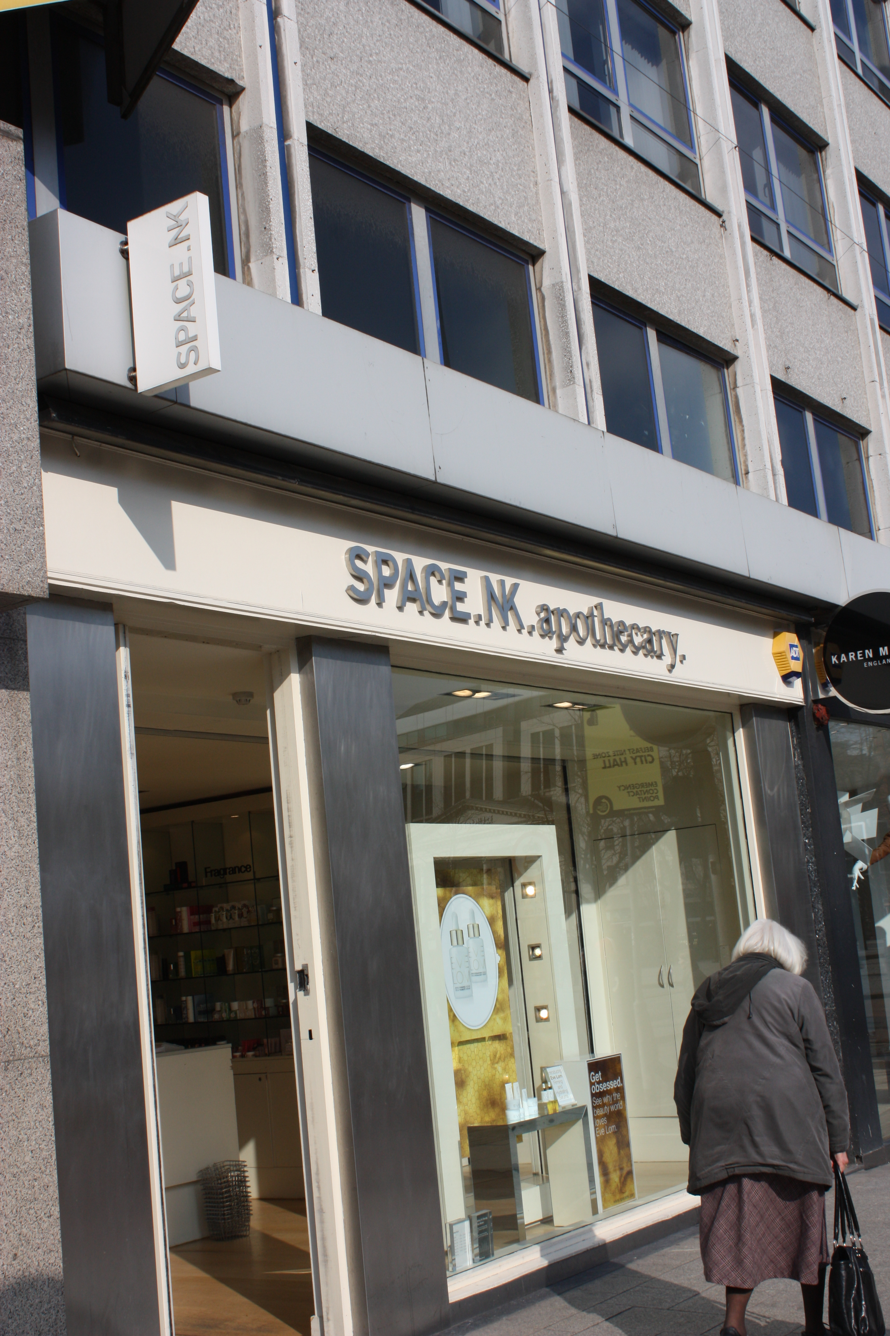 Space NK apothecary, Donegall Square North, Belfast, Northern Ireland, March 2011